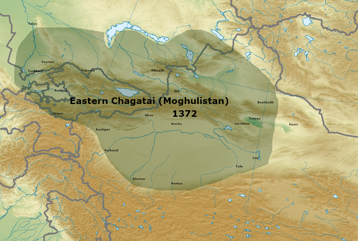 1372 Moghulistan